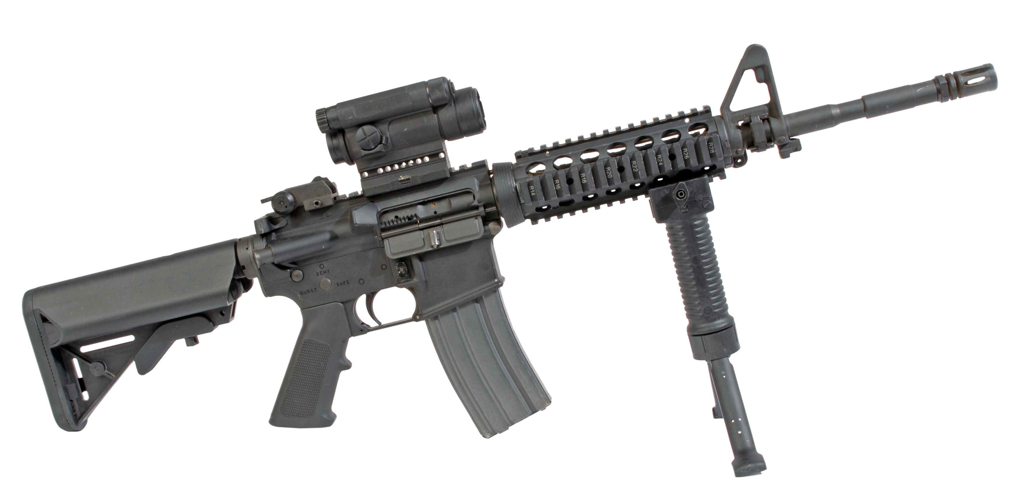 M4 carbine with M68 CCO.